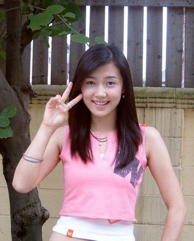 Nam Sang Mi